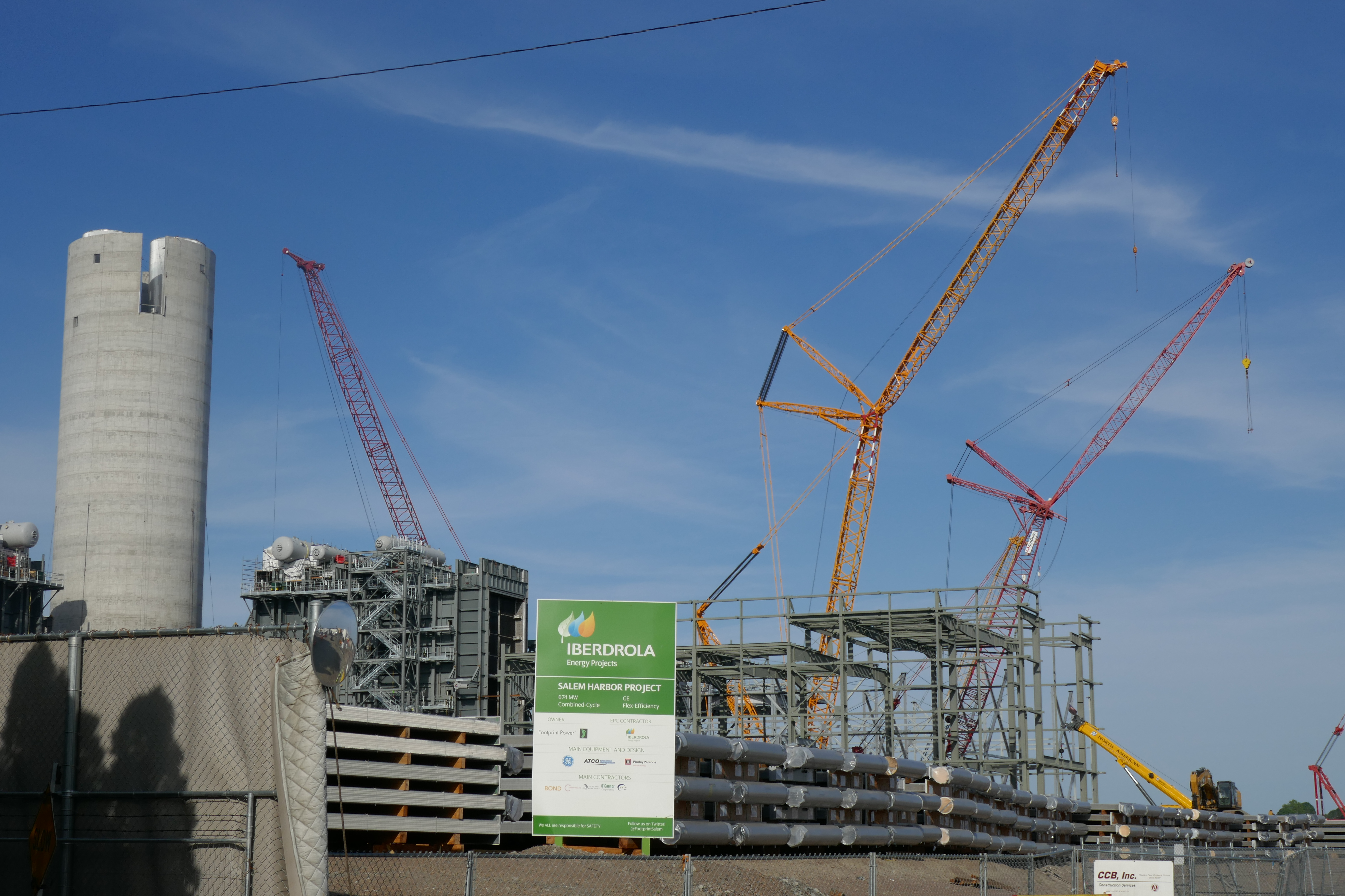 Construction of the Salem Harbor Station by Footprint Power in Salem, MA.